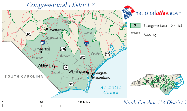 North Carolina's 7th congressional district prior to 2012 redistricting